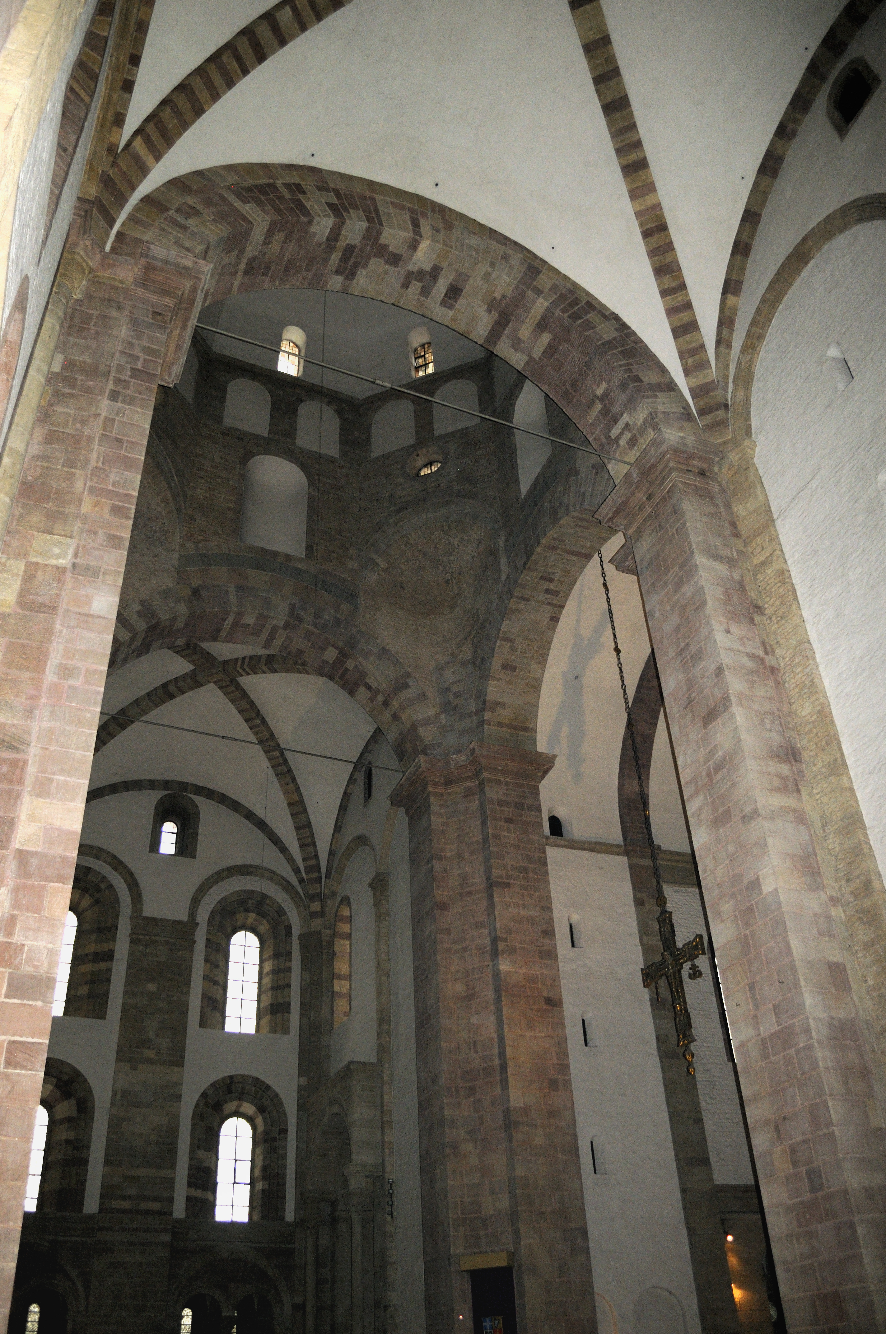 Picture taken in Speyer. Interior of the Speyer Cathedral.